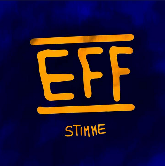 „Stimme“ Single-Cover by EFF.